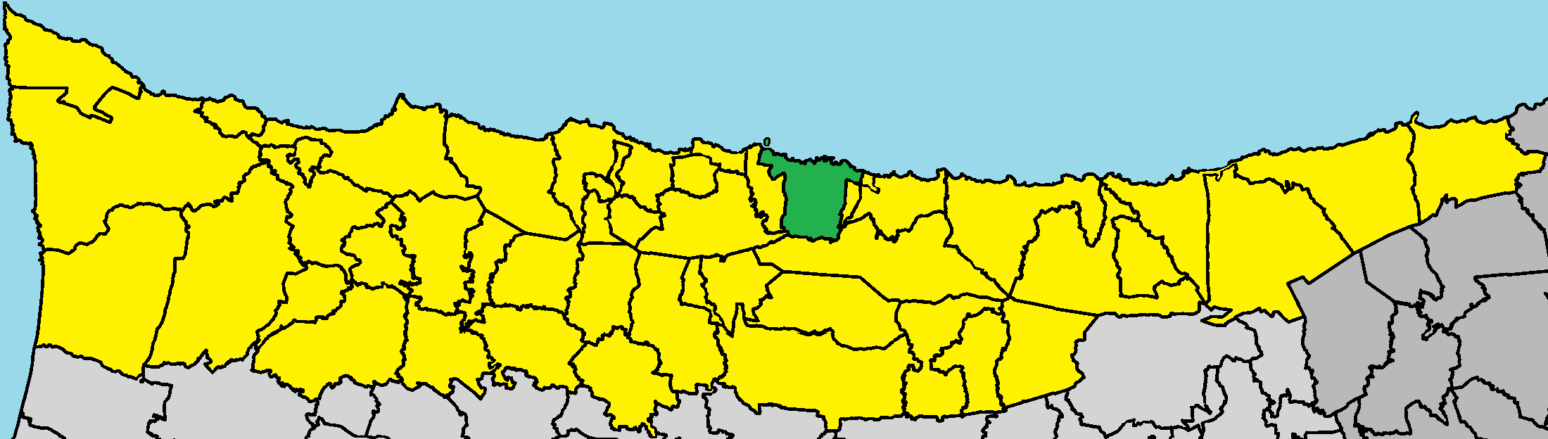 Kyrenia Municipality in Kyrenia District (de jure).